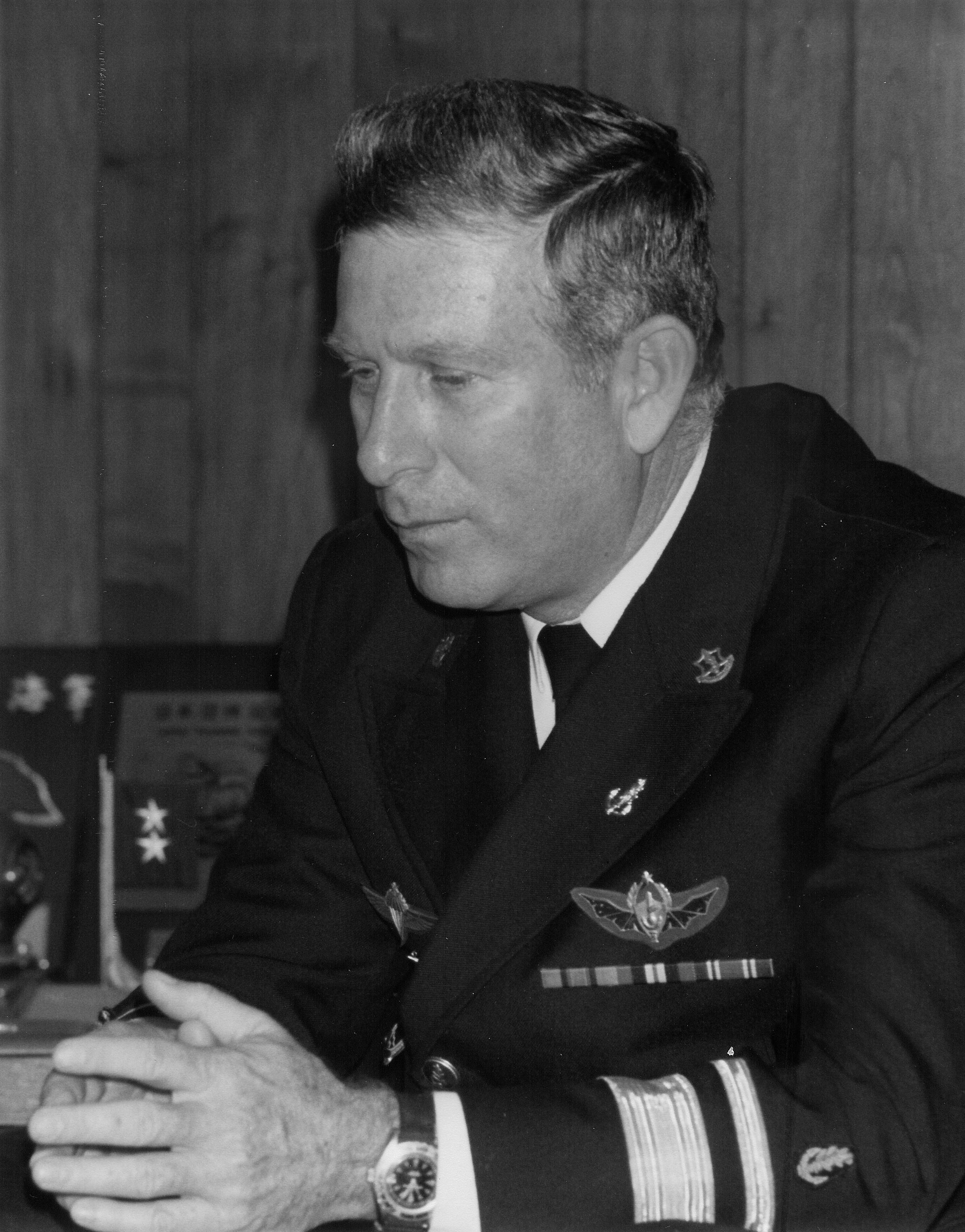 Zeev Almog, Commander In Chief of the (C.I.C.) Israeli Navy.